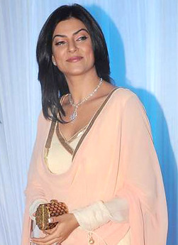 Sushmita Sen at Esha Deol's wedding reception